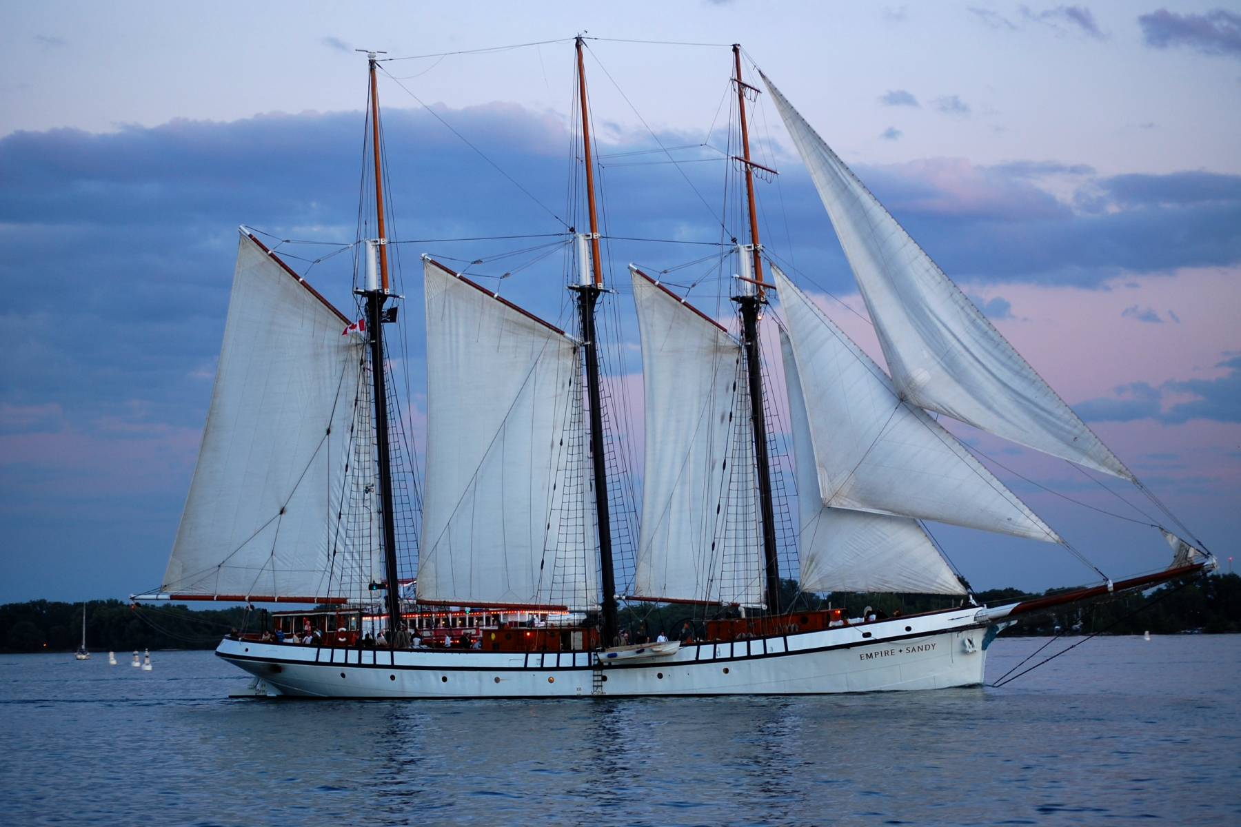 Cruising through Toronto Harbour on the Empire Sandy She's believed to be the last Empire ship built during WWII to be still sailing. IMO number: 5071561 Gross tonnage: 434 Length: 41.86 m Beam: 9.15 m Depth 4.88 m build in 1943 by CLELLANDS (SUCCESSORS) LTD. of WILLINGTON-QUAY-ON-TYNE, UK Ex. Ashford, Chris M